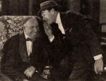 Still from the American crime drama film Beating the Game (1921) with an unidentified actor and Tom Moore, on page 55 of the September 17, 1921 Exhibitors Herald. Note: There were two American films released in 1921 with this name, the second one is a western film starring Hoot Gibson.